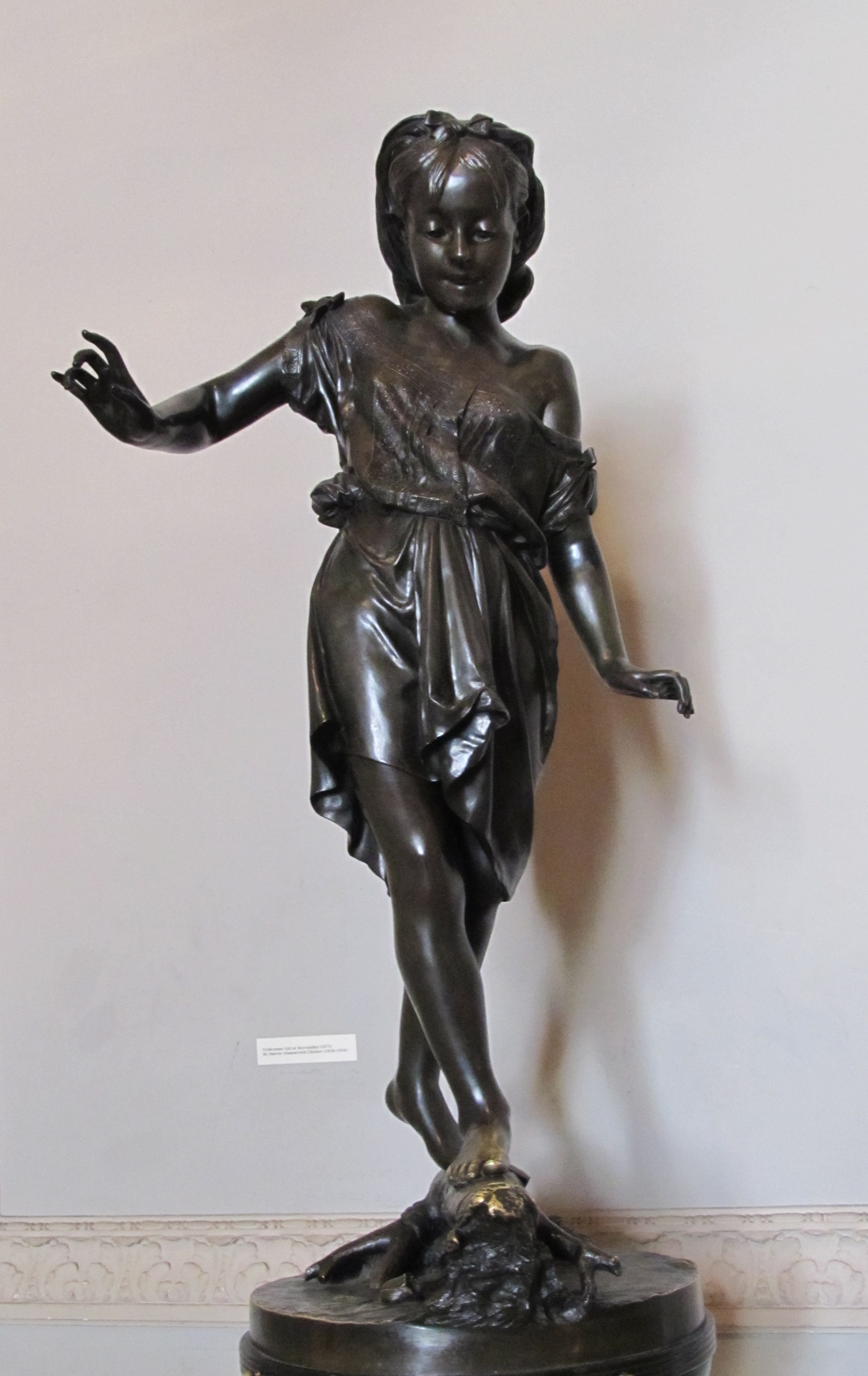 Rezvushka (frolicsome girl) by Matthew Chizhov at the NY public library